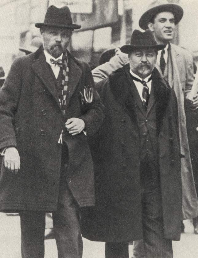 Stjepan and Pavle radić, leaders of the HSS, victims of assassination in the National Assembly (June 1928).